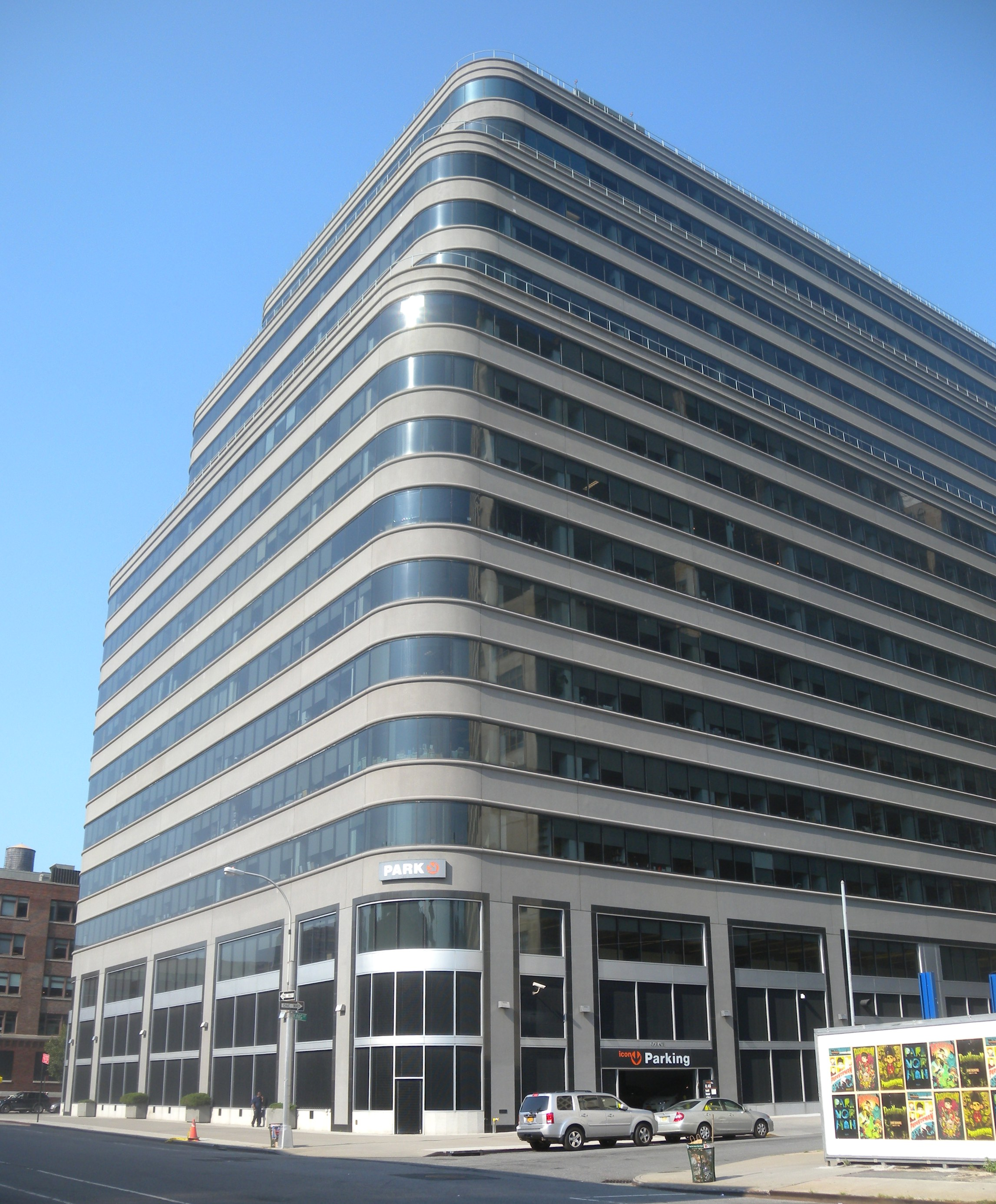 Looking northeast across Greenwich and King Streets at Saatchi & Saatchi headquarters on a sunny late afternoon.